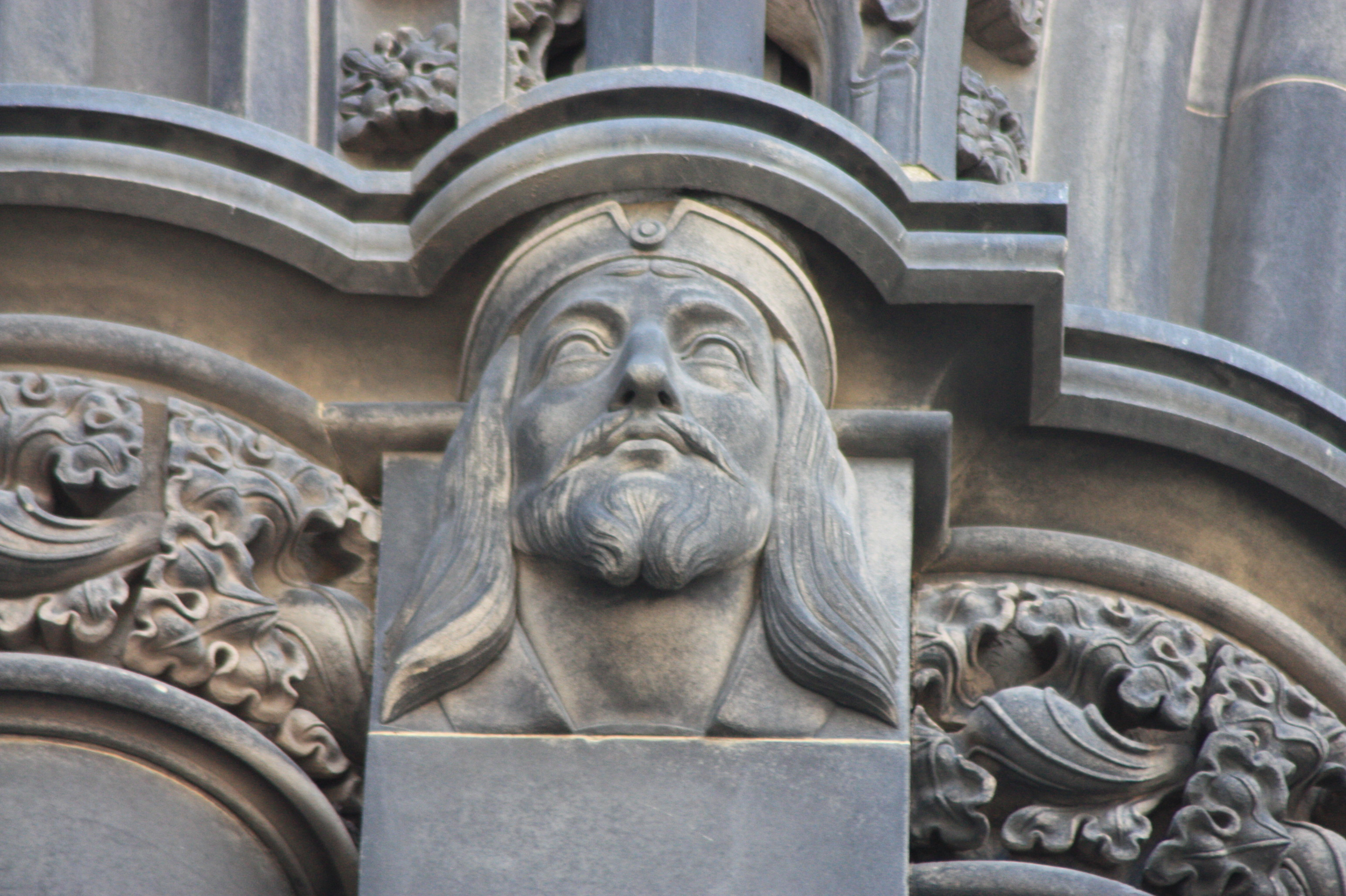 James I as appearing on the Scott Monument